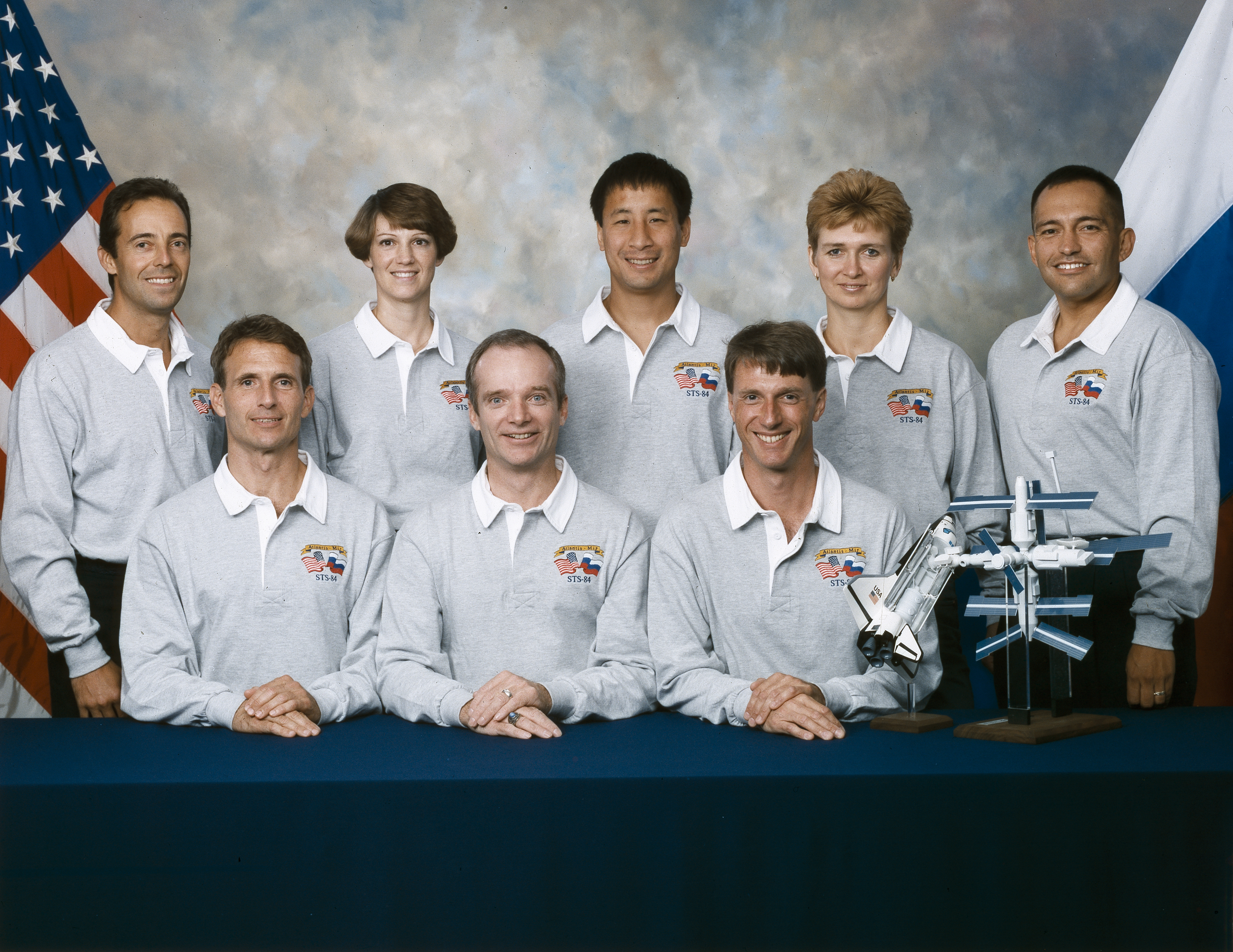 The crew assigned to the STS-84 mission included (seated front left to right) Jerry M Linenger, mission specialist; Charles J. Precourt, commander; and C. Michael Foale, mission specialist. On the back row (left to right) are Jean-Francois Clervoy (ESA), mission specialist; Eileen M. Collins, pilot; Edward T. Lu, mission specialist; Elena V. Kondakova (RSA), mission specialist; and Carlos I. Noriega, mission specialist. Launched aboard the Space Shuttle Atlantis on May 15, 1997 at 4:07:48 am (EDT), the STS-84 mission served as the sixth U.S. Space Shuttle-Russian Space Station Mir docking.